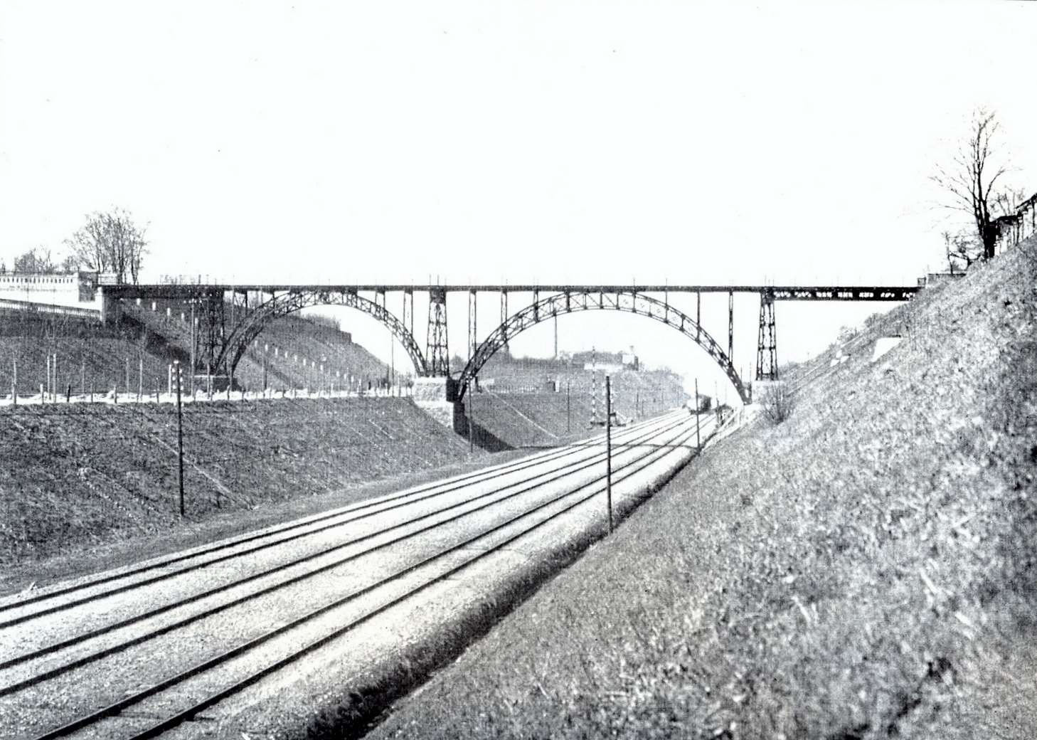 The listed Carlsberg Viaduct and Vigerslev Allé in Copenhagen, Denmark